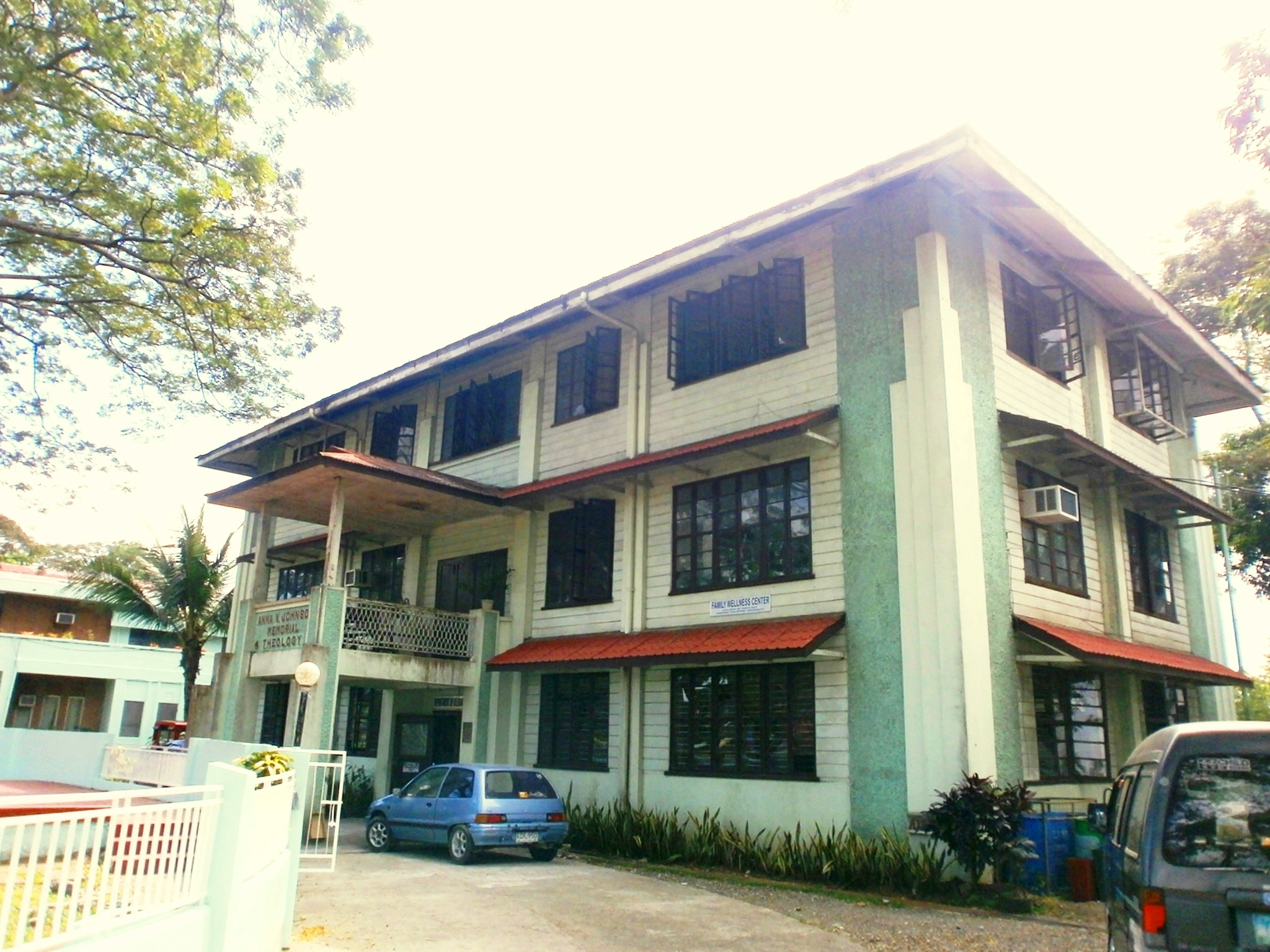 Anna V. Johnson Hall of Central Philippine University